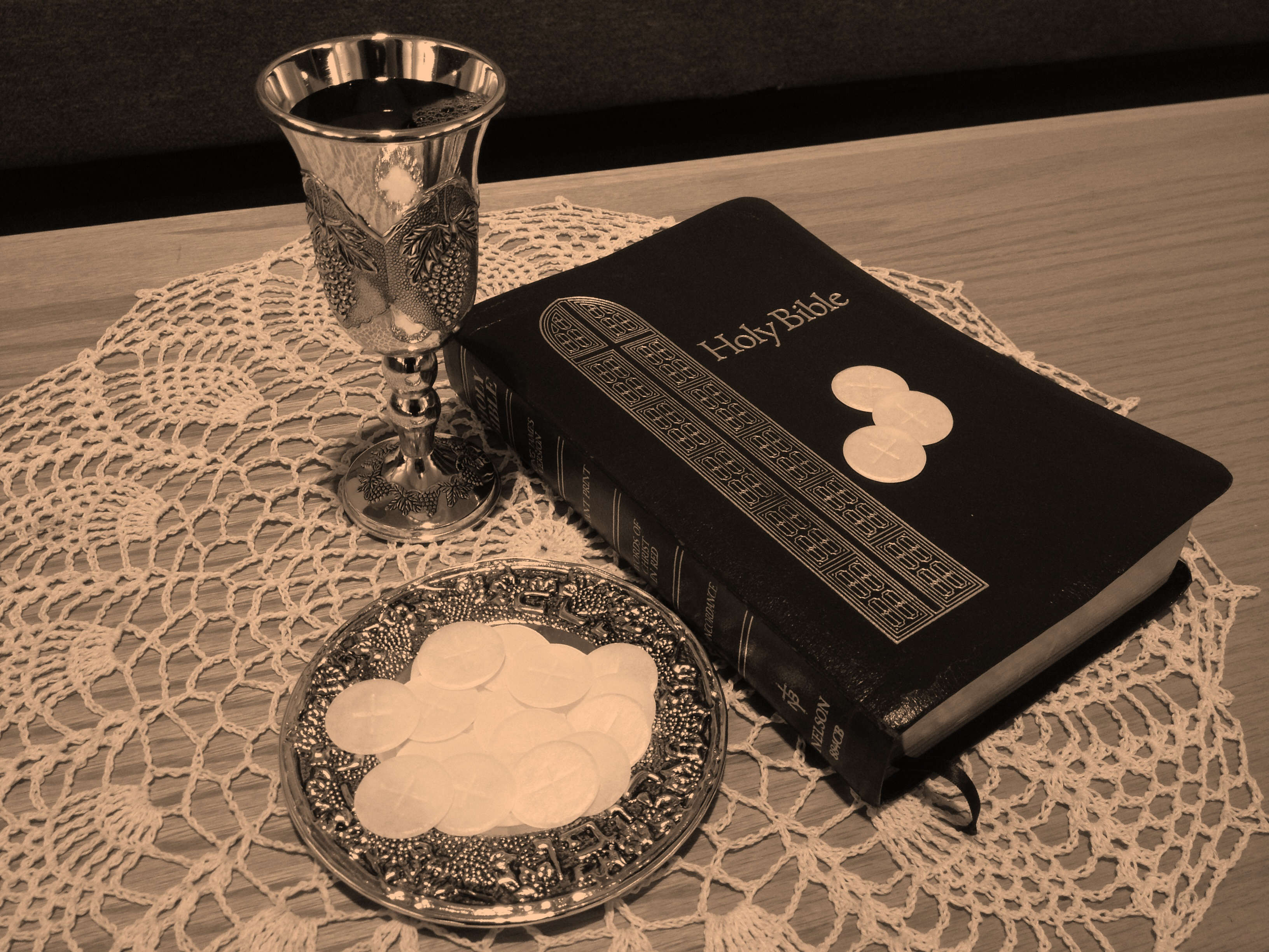 Communion, Lord's Supper, Holy Eucharist, Bread, Wine